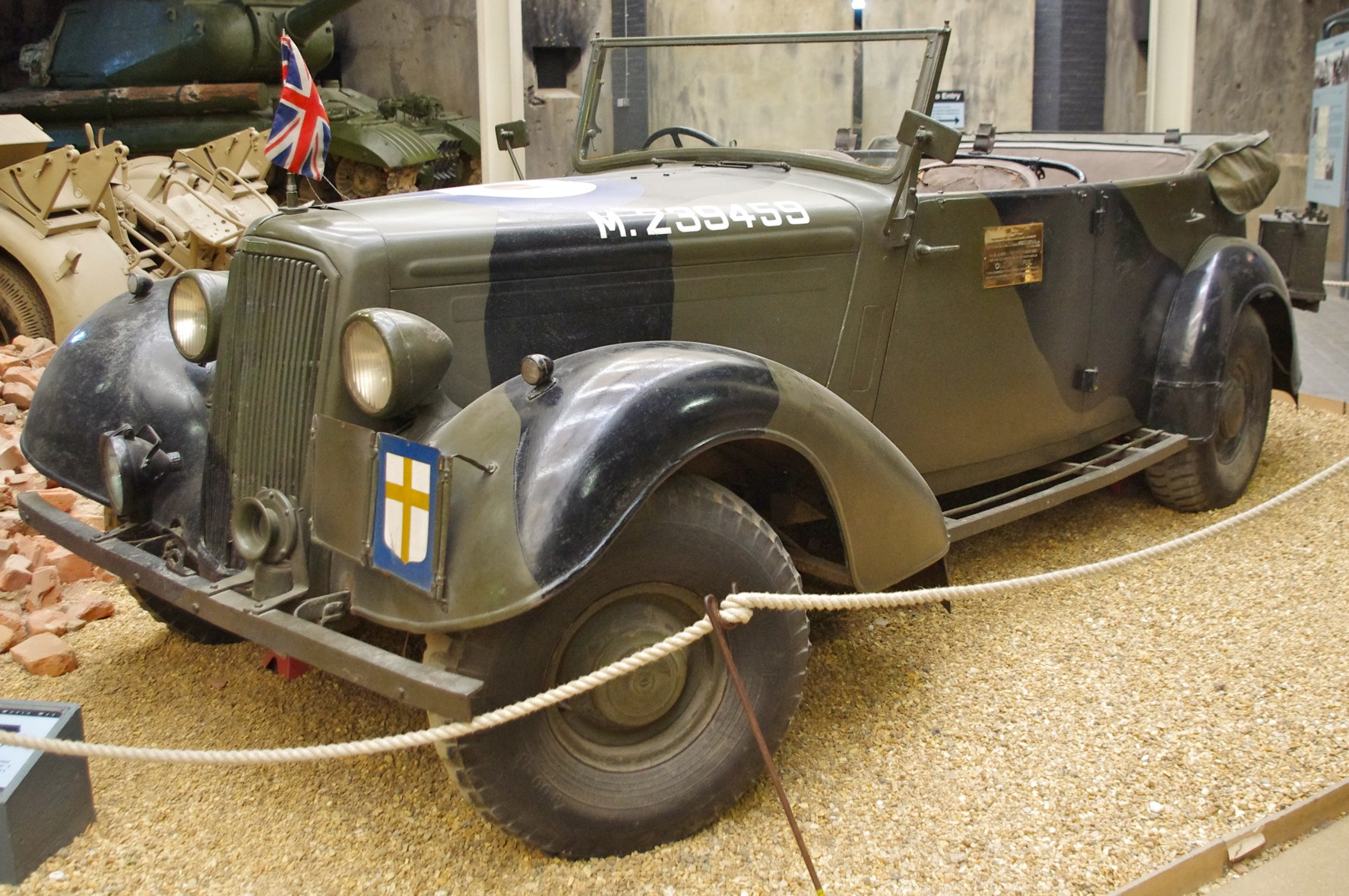 Imperial War Museum, Duxford